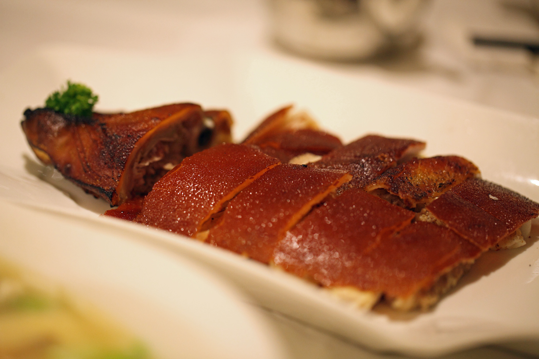 Roast sucking pig (quarter) from Jade Garden Chinese Restaurant in Mong Kok, Hong Kong.